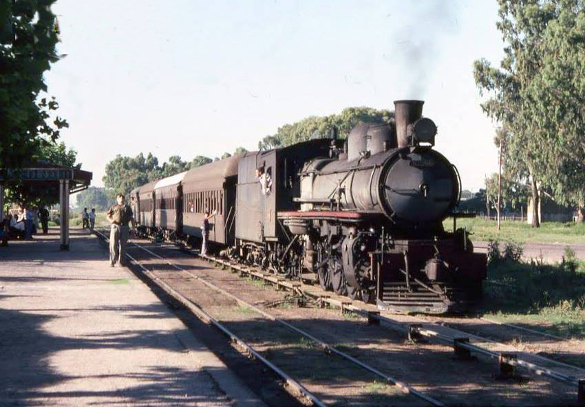 Passenger train (pulled by a steam locomotive) arriving to Monte Chingolo station (Lanús Partido) of BA Provincial Railway.